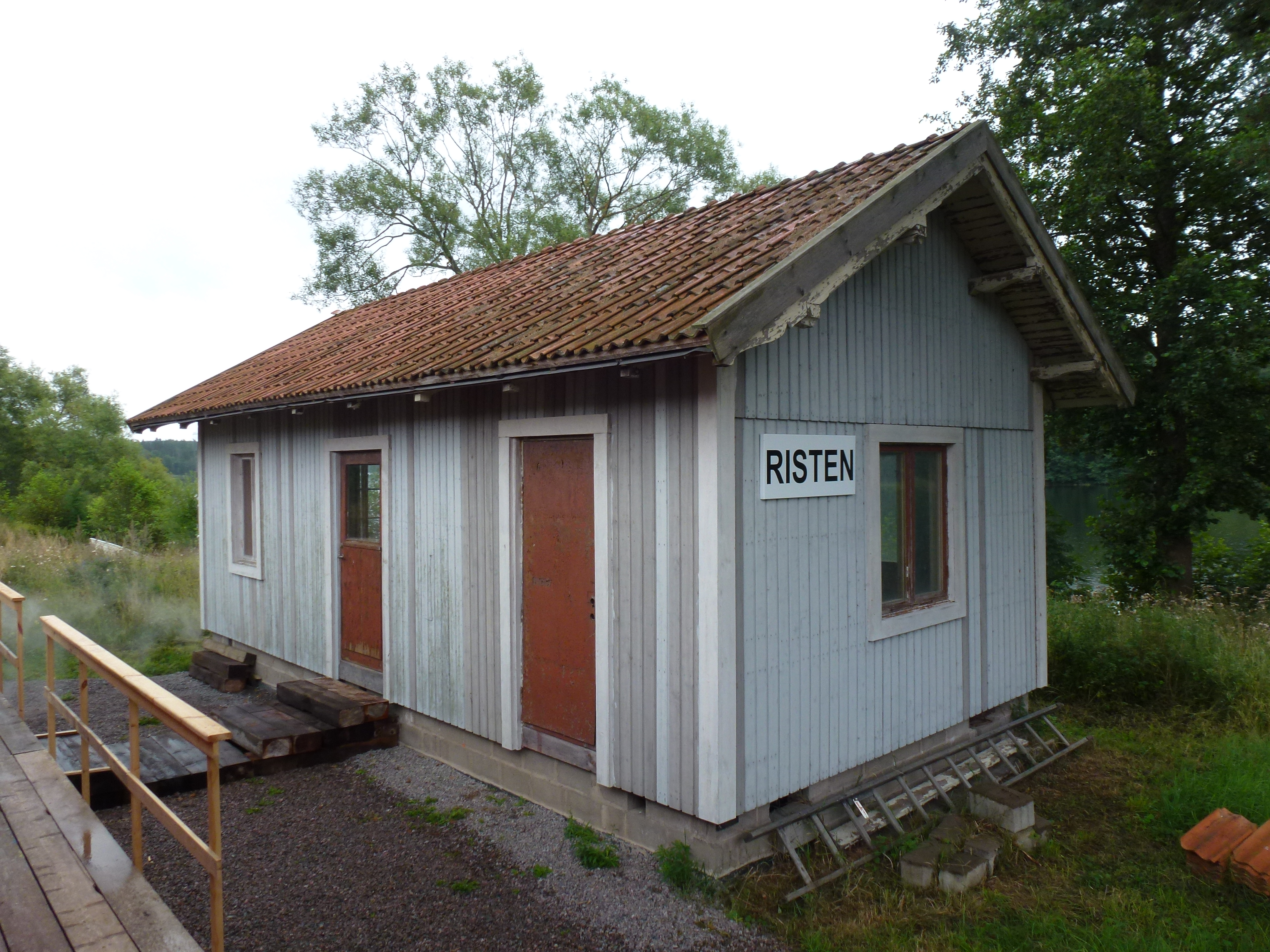 Railway station Risten, Östergötland County, Sweden